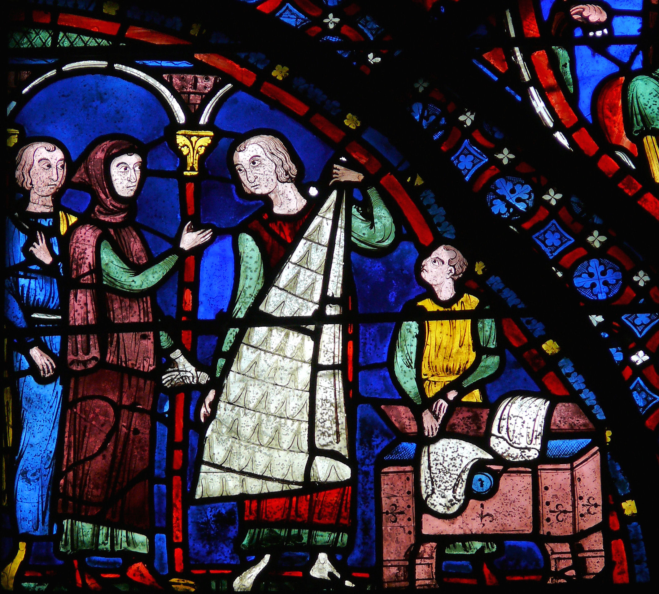 Cathedral of Chartres - the furrier with a squirrel fur-skin lining of Russian squirrel bellies